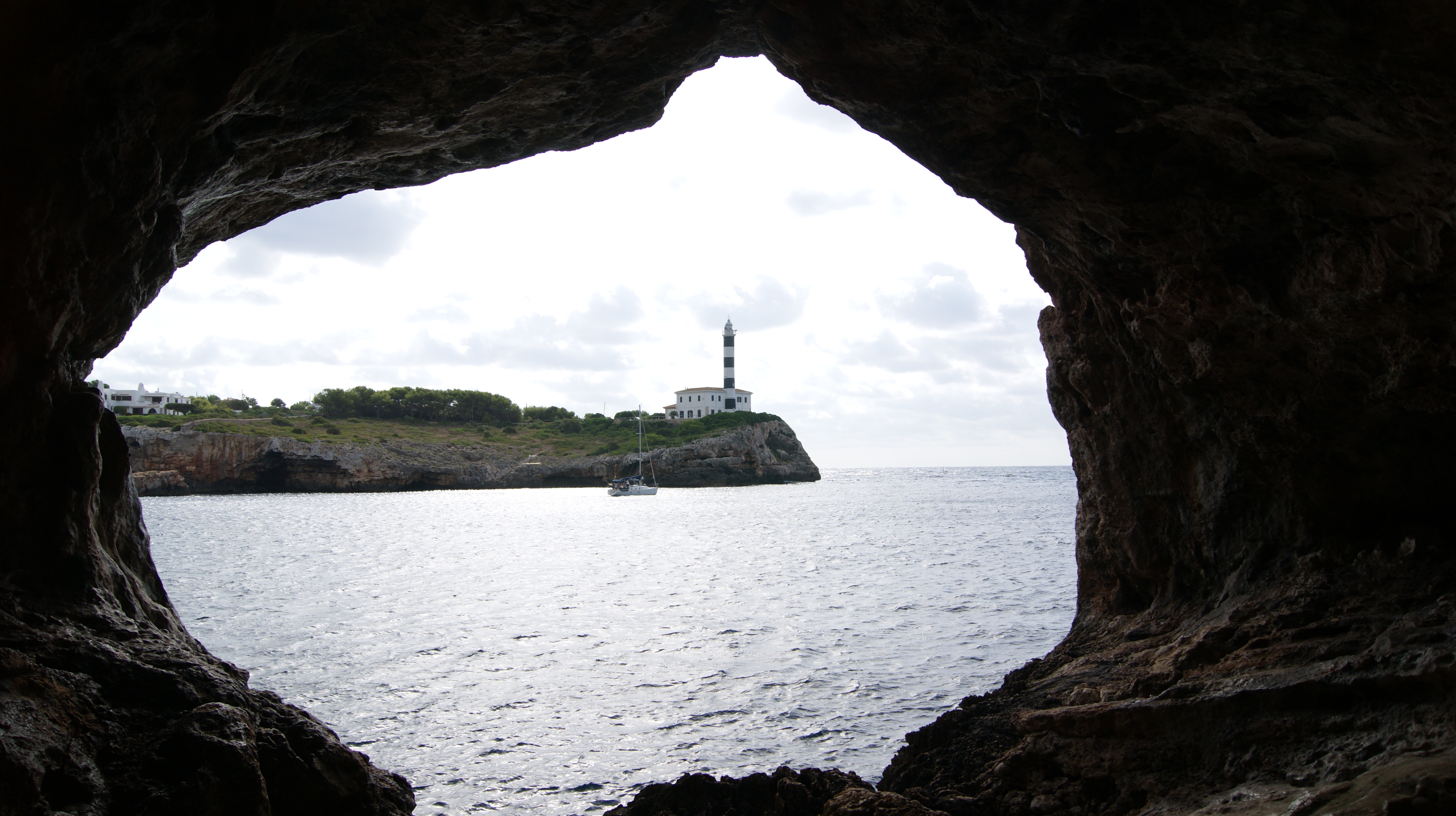 Lighthouse at the port entrance of Portocolom on Mallorca.